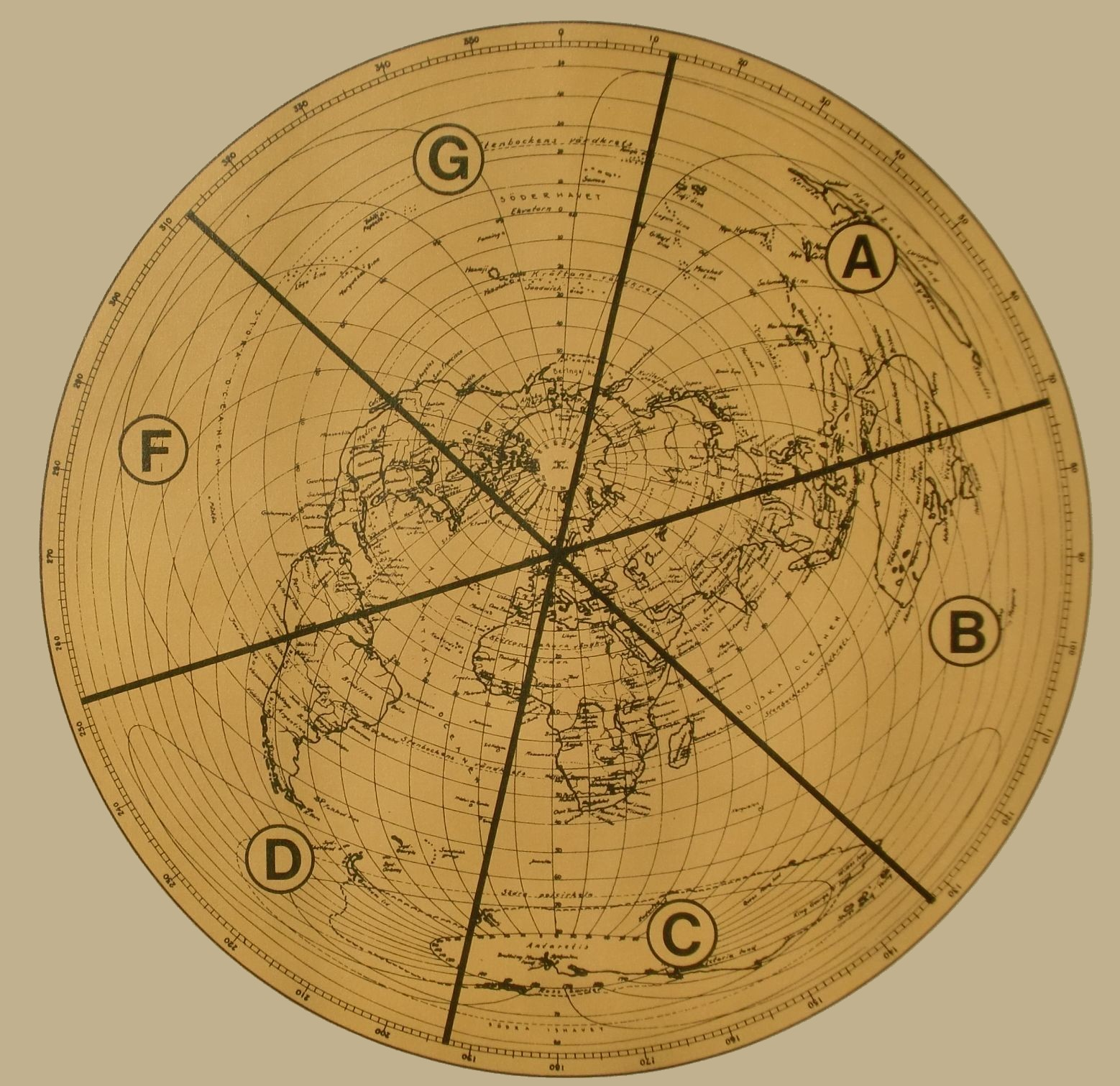 Great circle map with center at Göteborg radio near Kungsbacka, on the west coast of Sweden. Sectors define areas covered by various directional antennas.